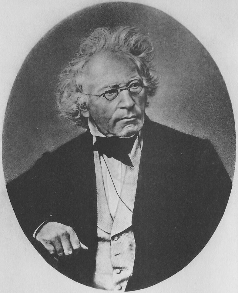 German politician and banker David Hansemann, 1790-1864